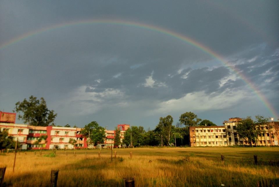 P.C-Shuvayu Ghosh